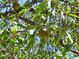 Mangaba (Hancornia speciosa)